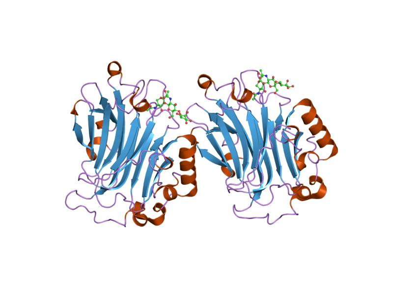 Cartoon representation of the molecular structure of protein registered with 1un1 code.